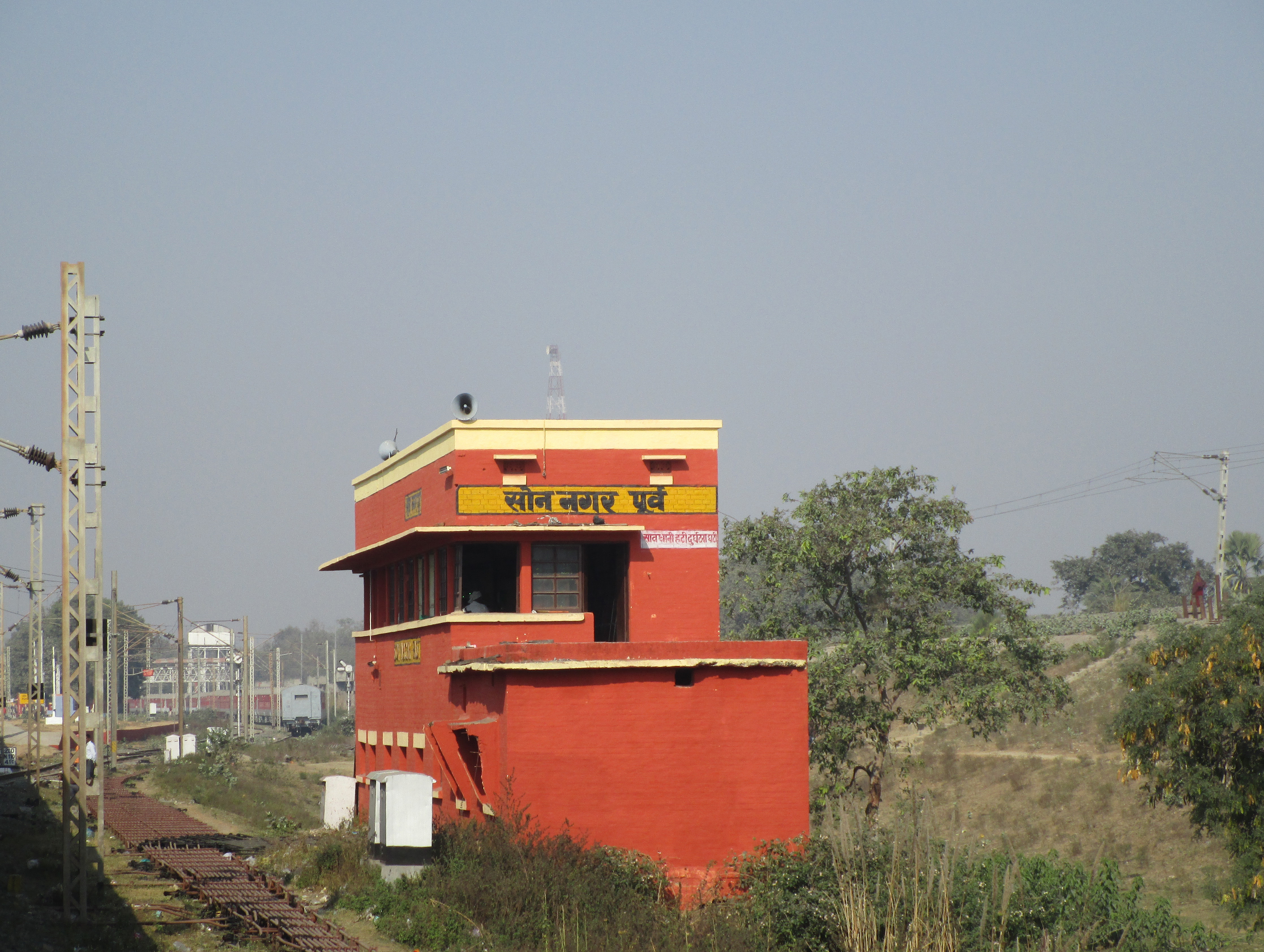 Son Nagar railway station east control room